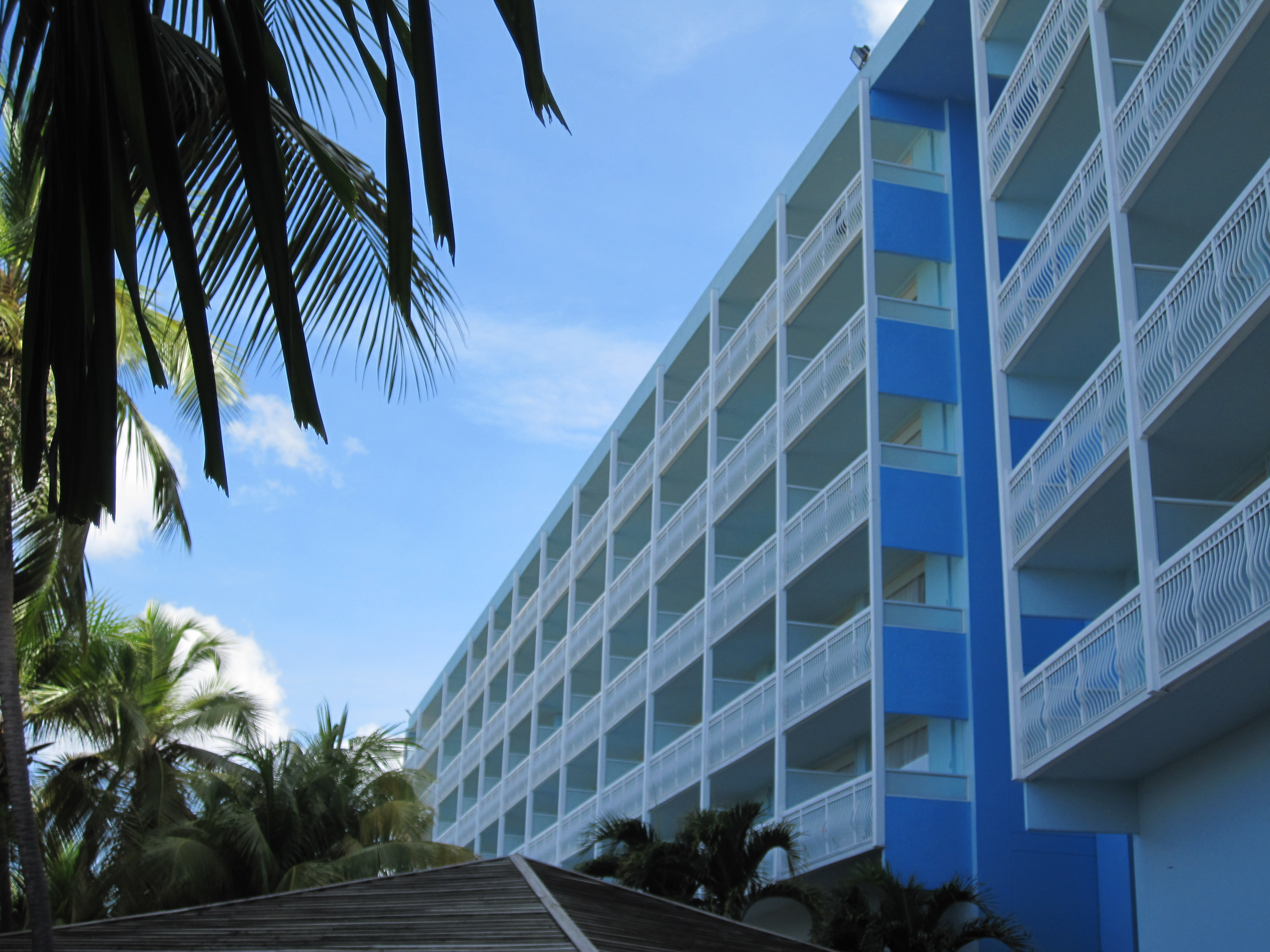 View of Piscadera Bay Fort from glass elevator